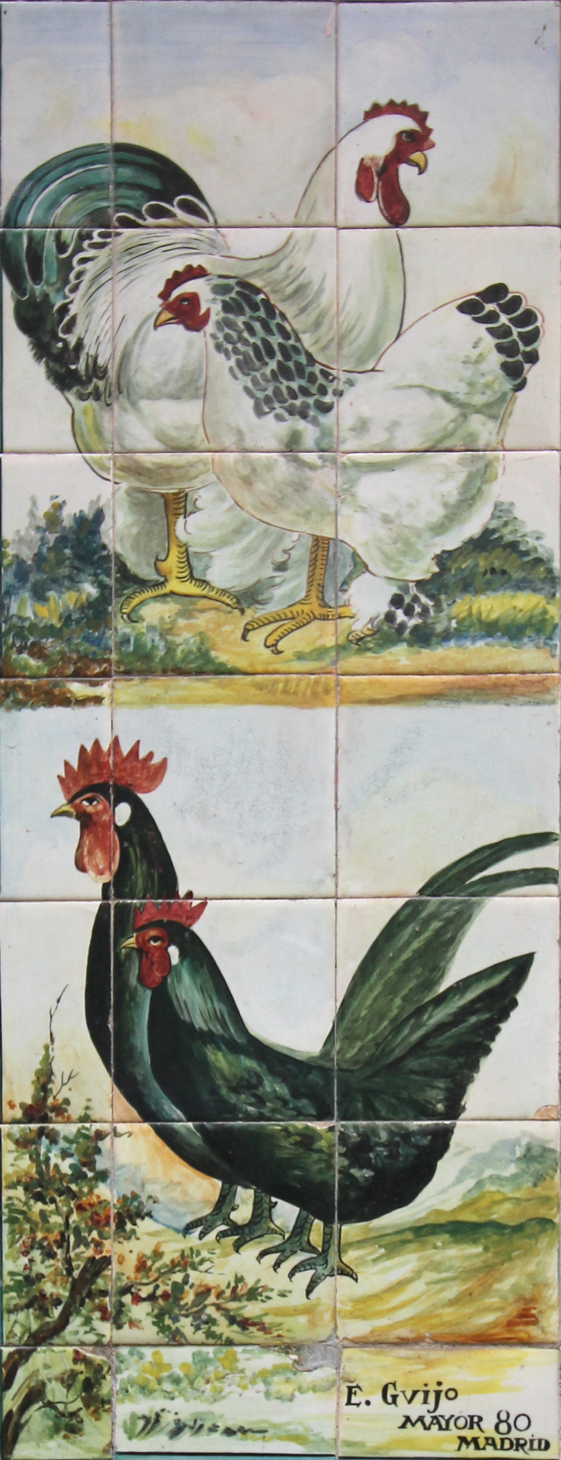 Detail of the façade of a former poulterer's.